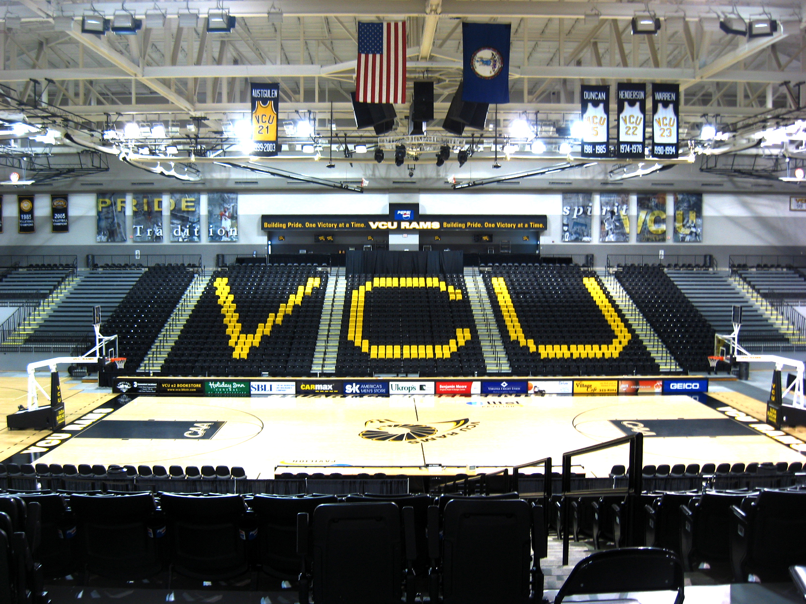 An interior view of the Stuart C. Siegel Center on the VCU campus in Richmond, VA.